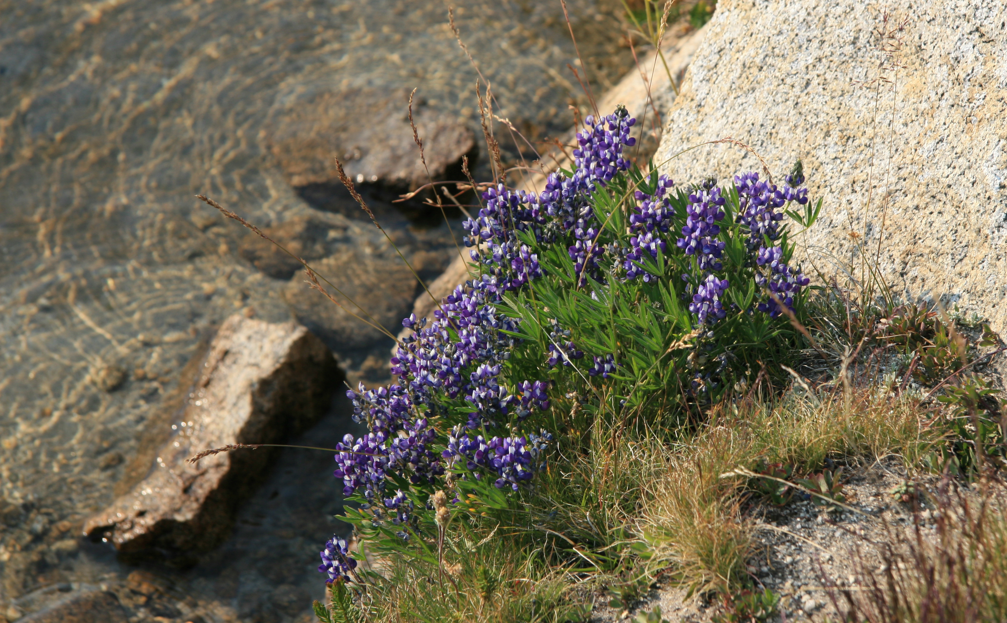 Lupine clump at lake edge, Pioneer Basin. John Muir Wilderness, Sierra Nevada mountains, California.